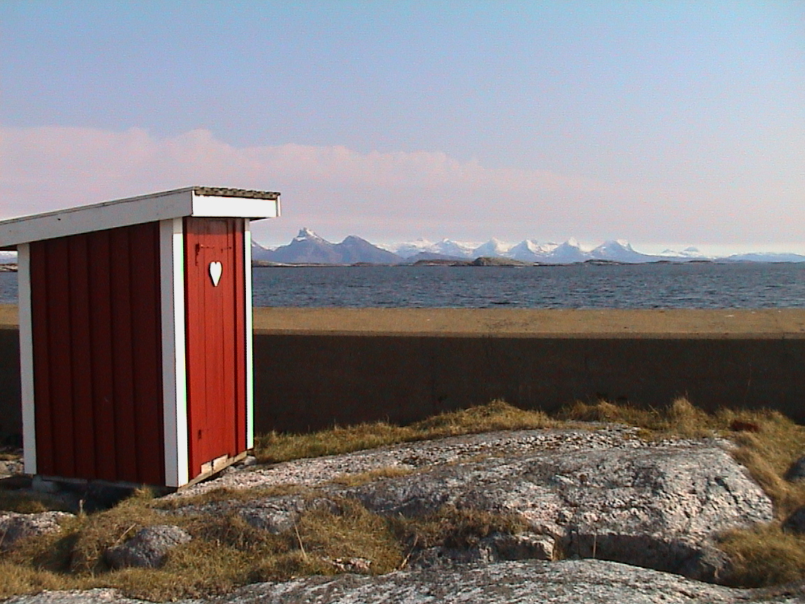 Restroom, Sandsundvær, Herøy, Nordland, Norway Photo: Guttorm Raknes (drguttorm), April 17th, 2003